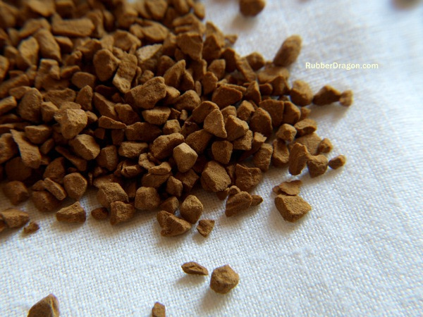 Close-up view of instant coffee